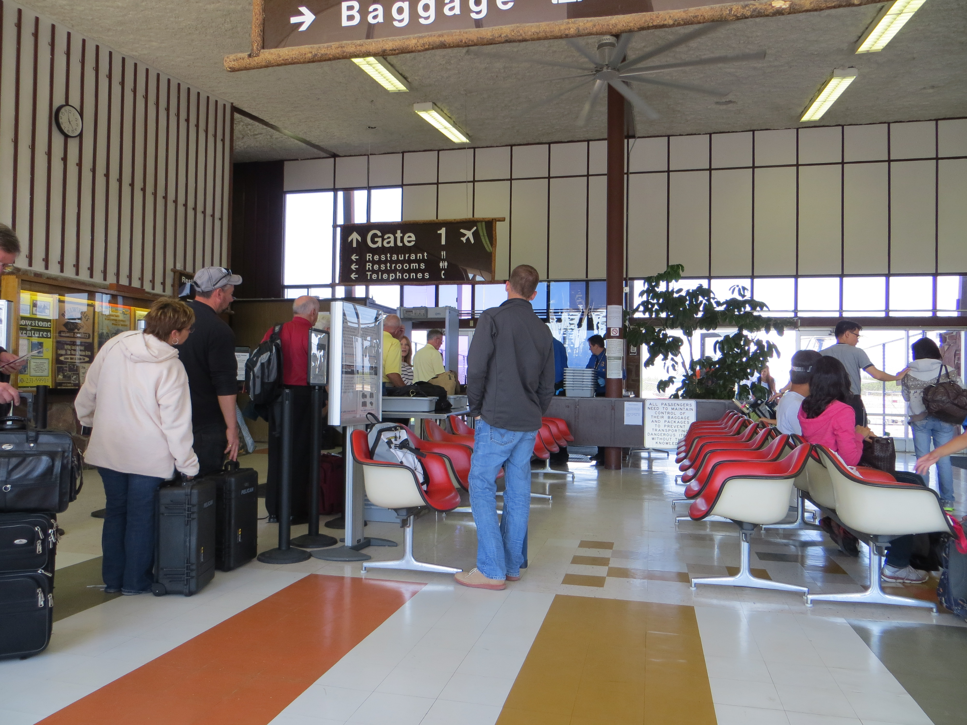 The waiting area at West Yellowstone Airport.